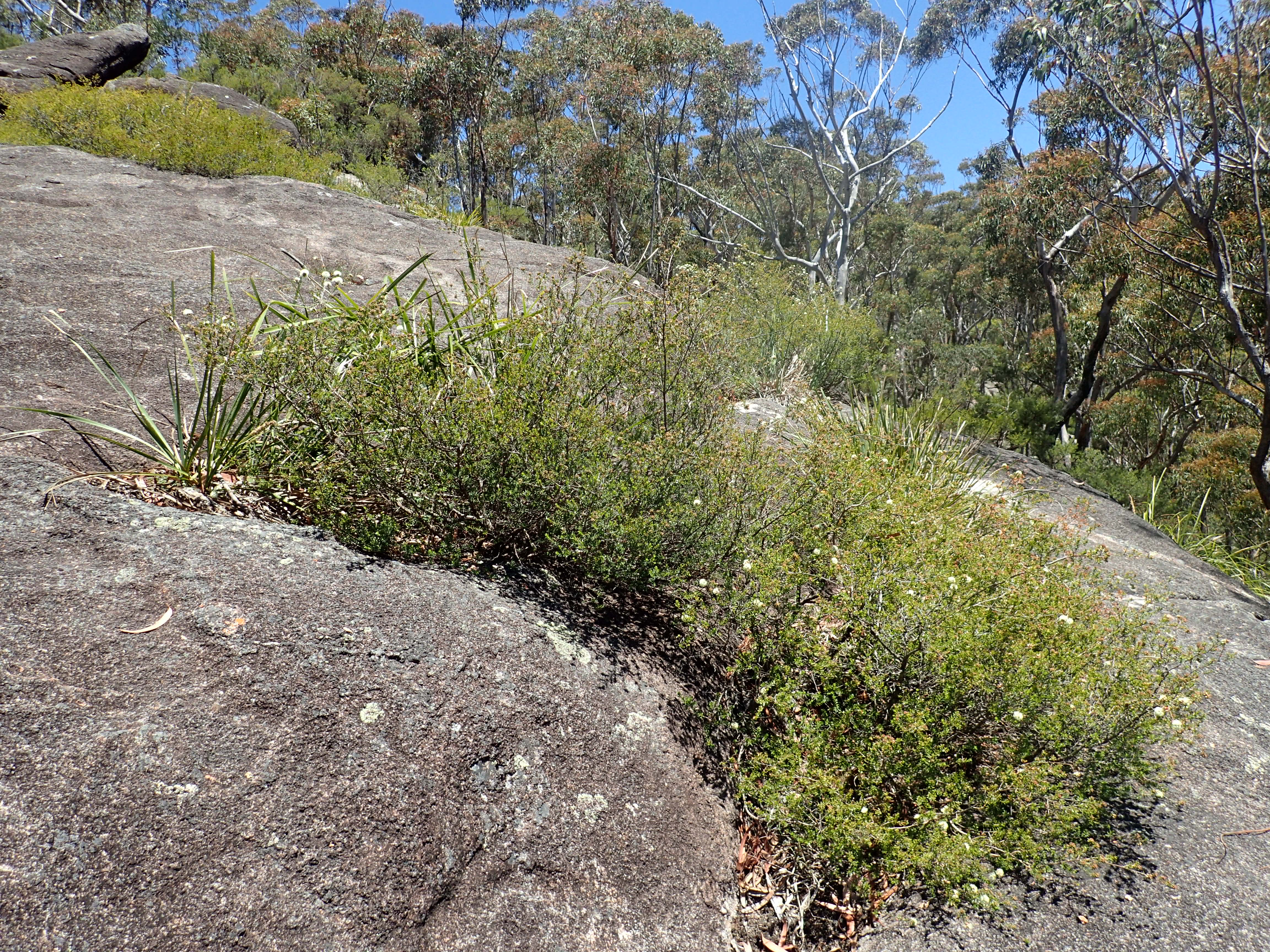 Kunzea bracteolata growing at The Granites lookout in the Washpool National Park